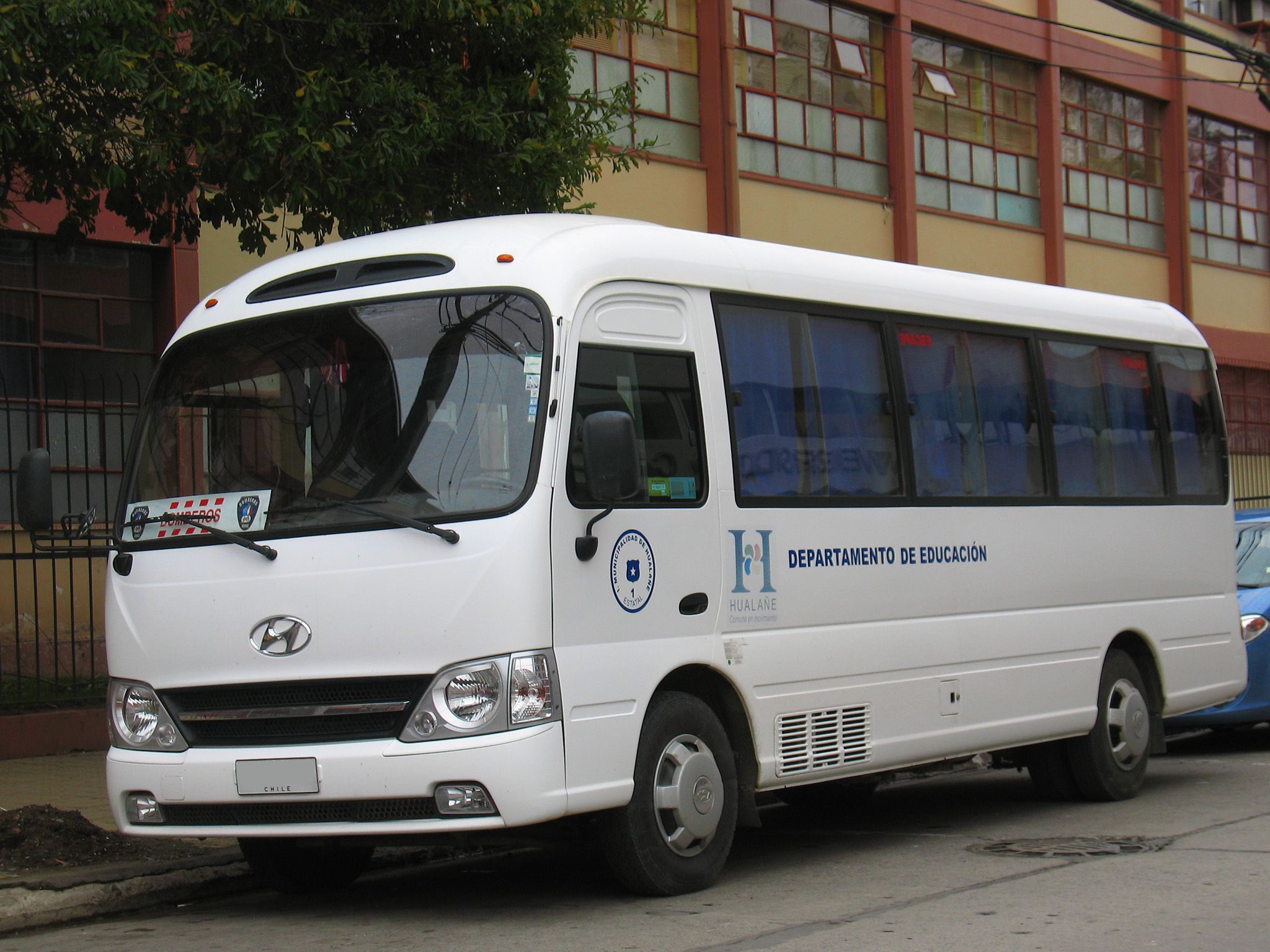 Hyundai County Deluxe 2011